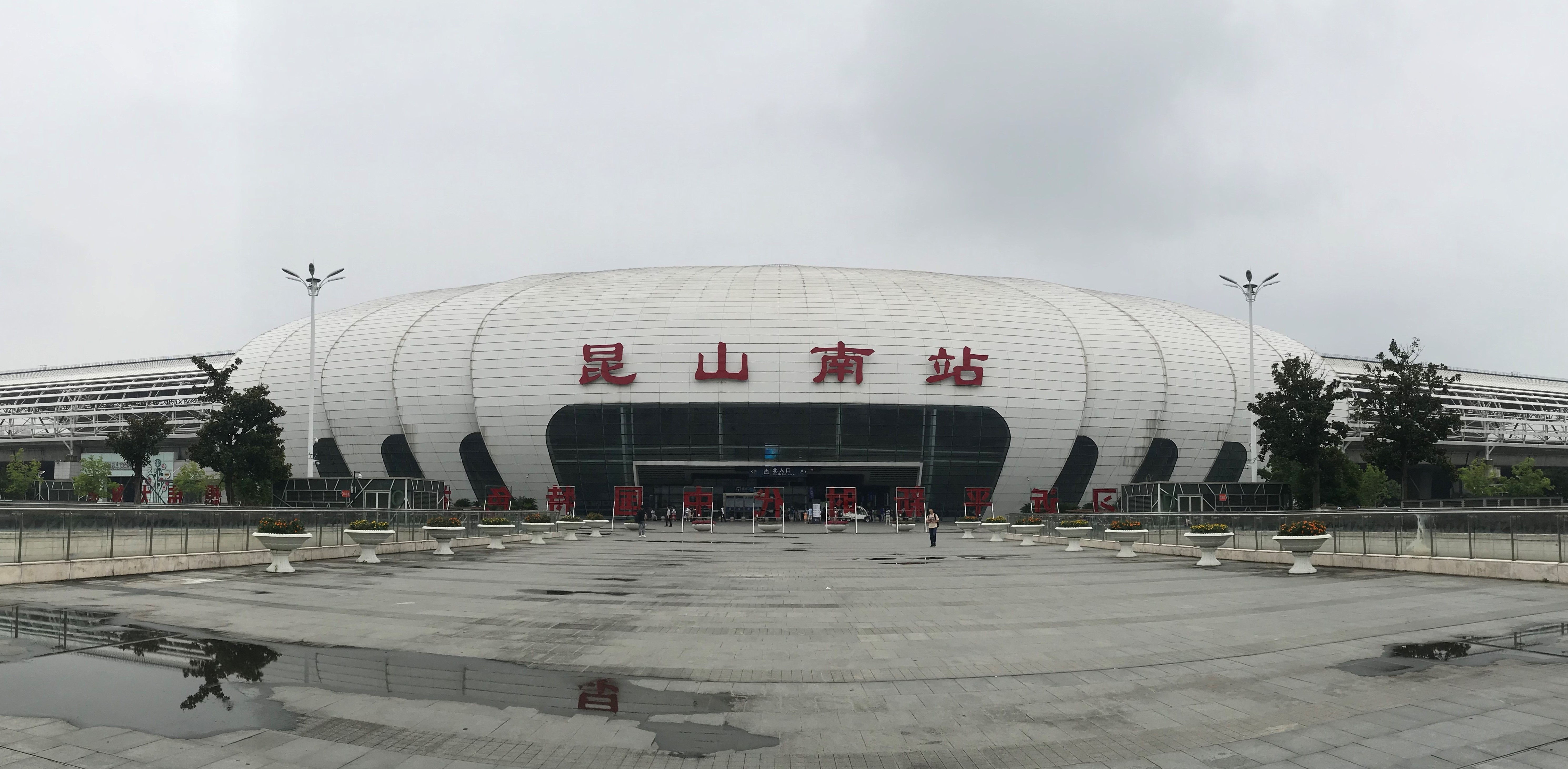 201907 Facade of Kunshannan Station